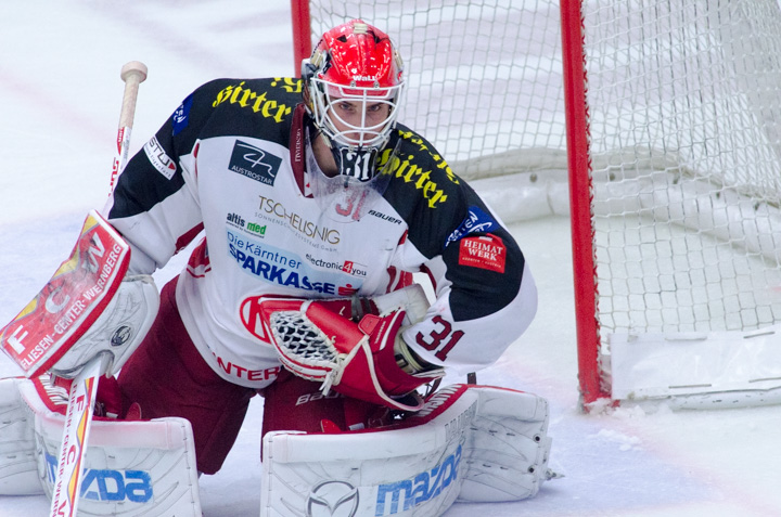 VSV vs KAC in EBEL 2013-10-22